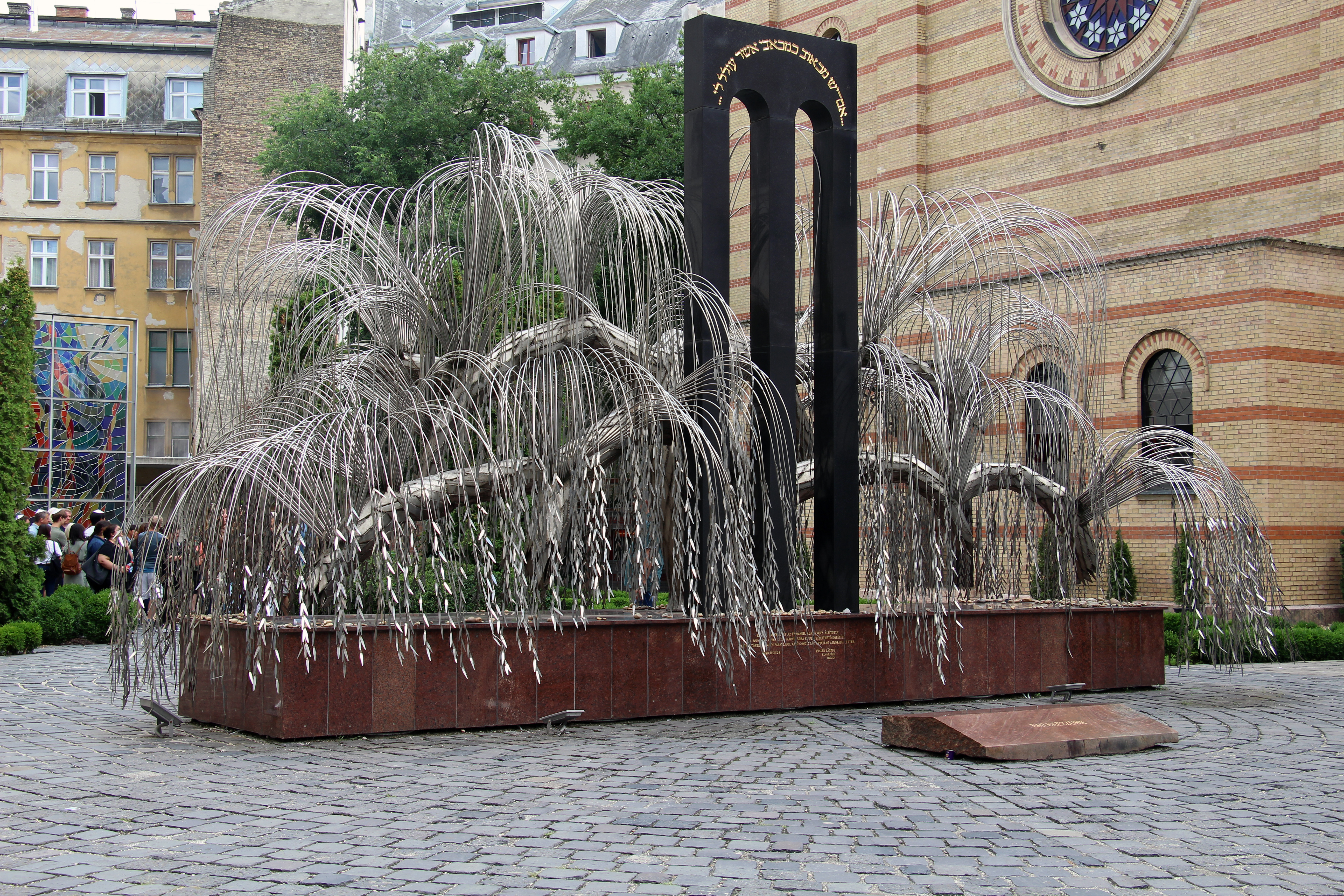 Erzsébetváros - Dohány útca The Raoul Wallenberg Holocaust Memorial Park in the rear courtyard of the Great Synagogue holds the Memorial of the Hungarian Jewish Martyrs — at least more than 500,000 Hungarian Jews were murdered by the Nazis and the Hungarian fascists. Made by Imre Varga in 1990, it resembles a weeping willow whose leaves bear inscriptions with the names of families of victims.